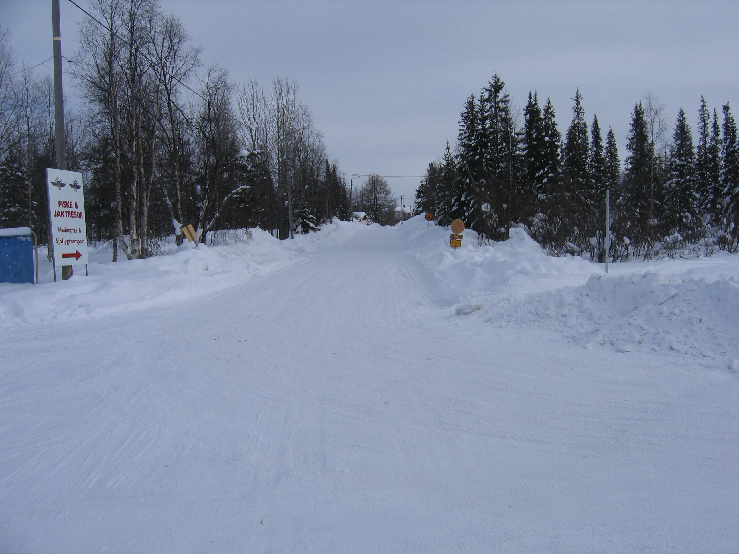 Kurravaara in winter